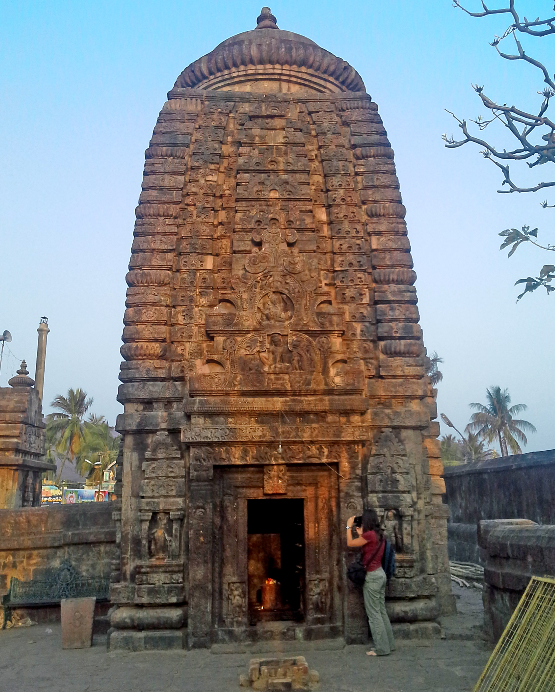 A sub temple in Sri Mukhalingam temple complex, Srikakulam district